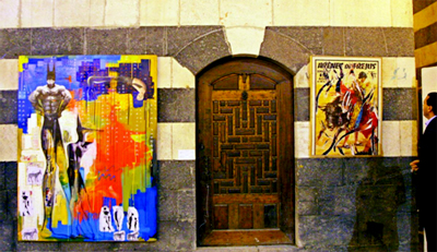 Cigars, Books, Cars